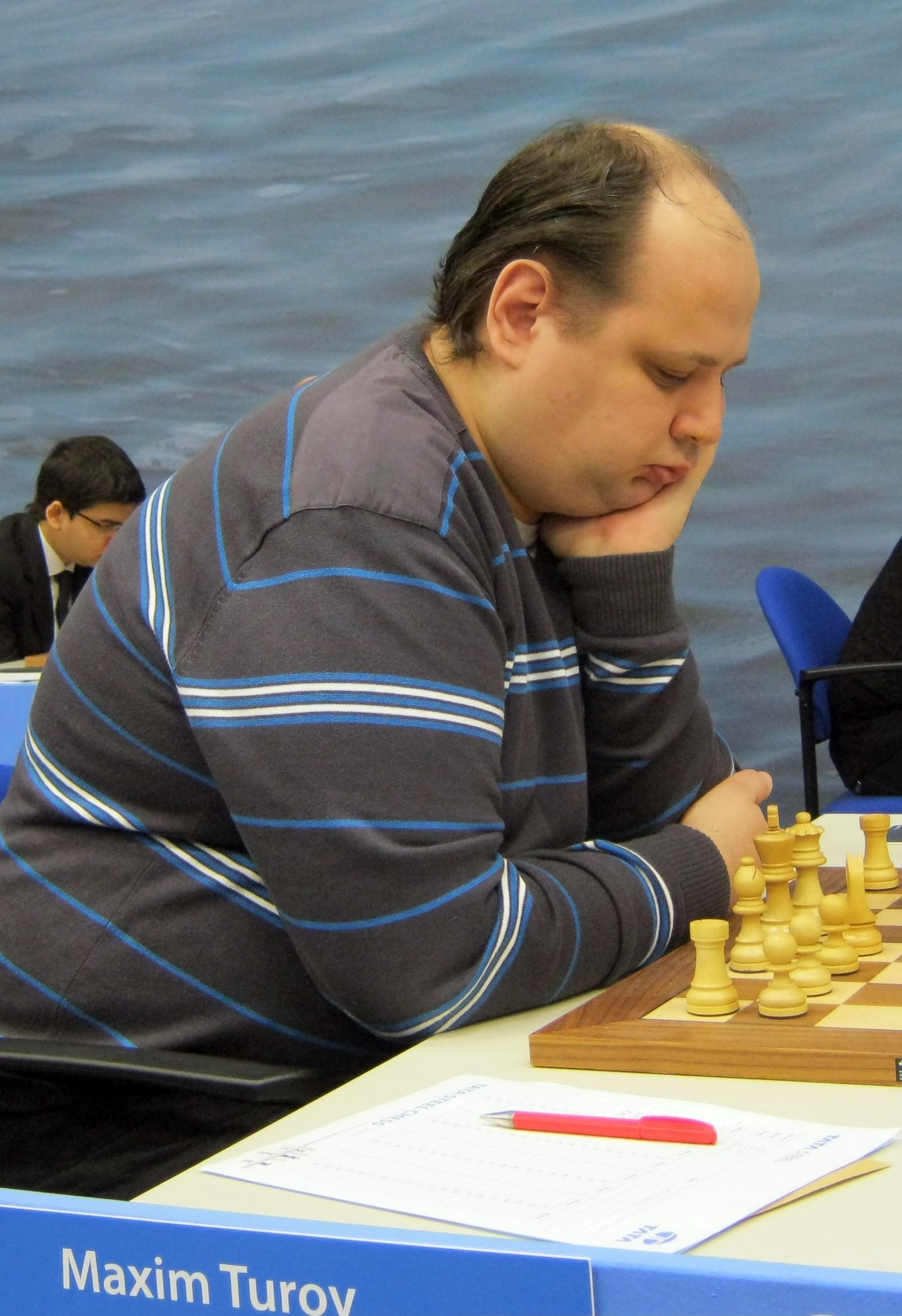 Maxim Turov, chess grandmaster from Russia